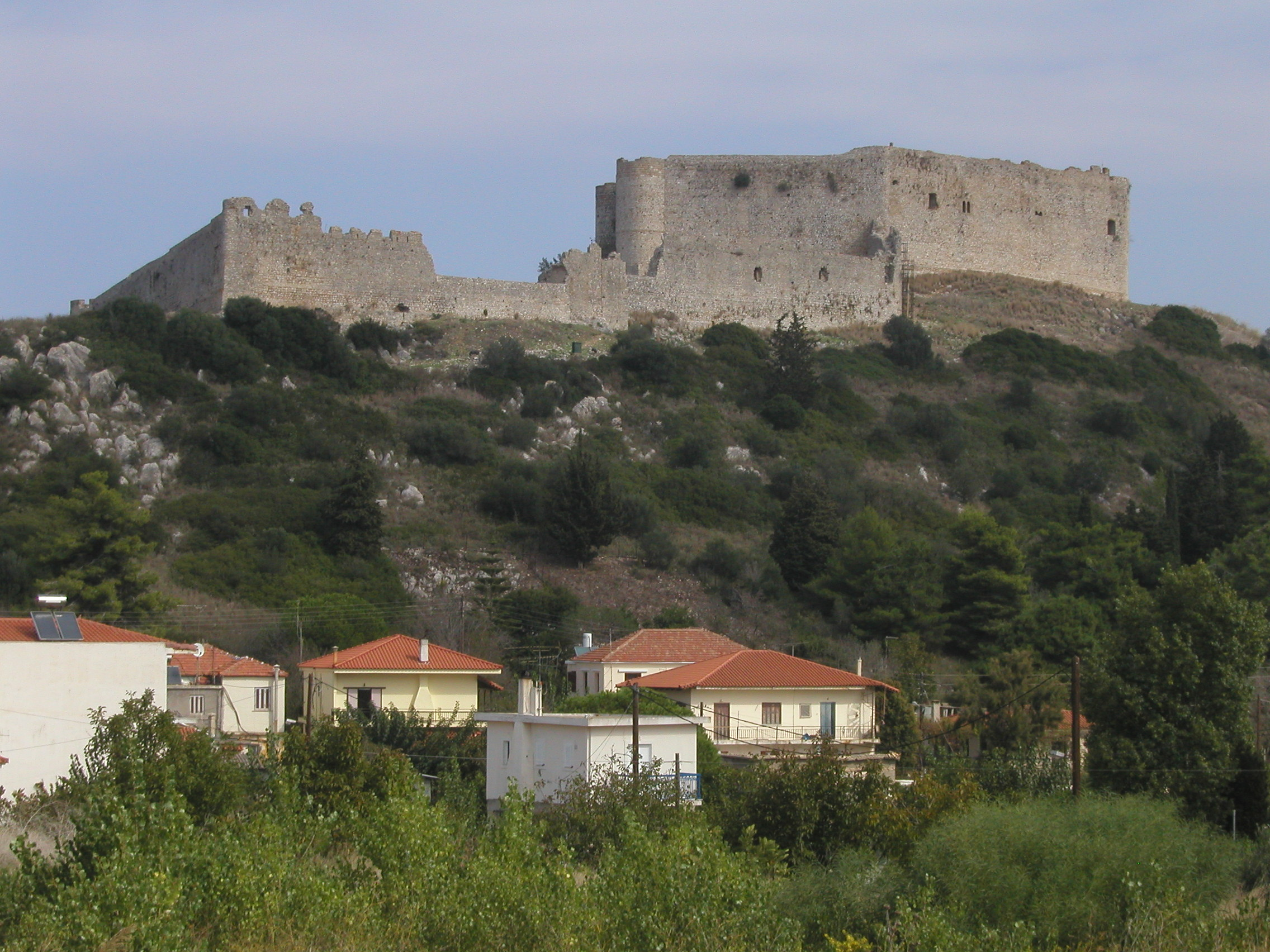 Chlemoutsi